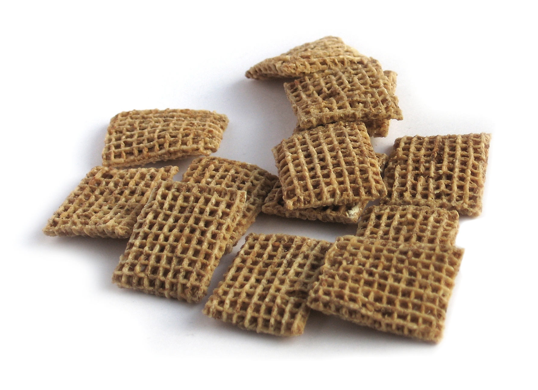 Close-up photograph of Shreddies breakfast cereal. These are actual Shreddies, not a generic version. White levels adjusted and some background airbrushed out, but Shreddies themselves essentially as photographed. (These are ones sold in the UK, if it makes any difference.)